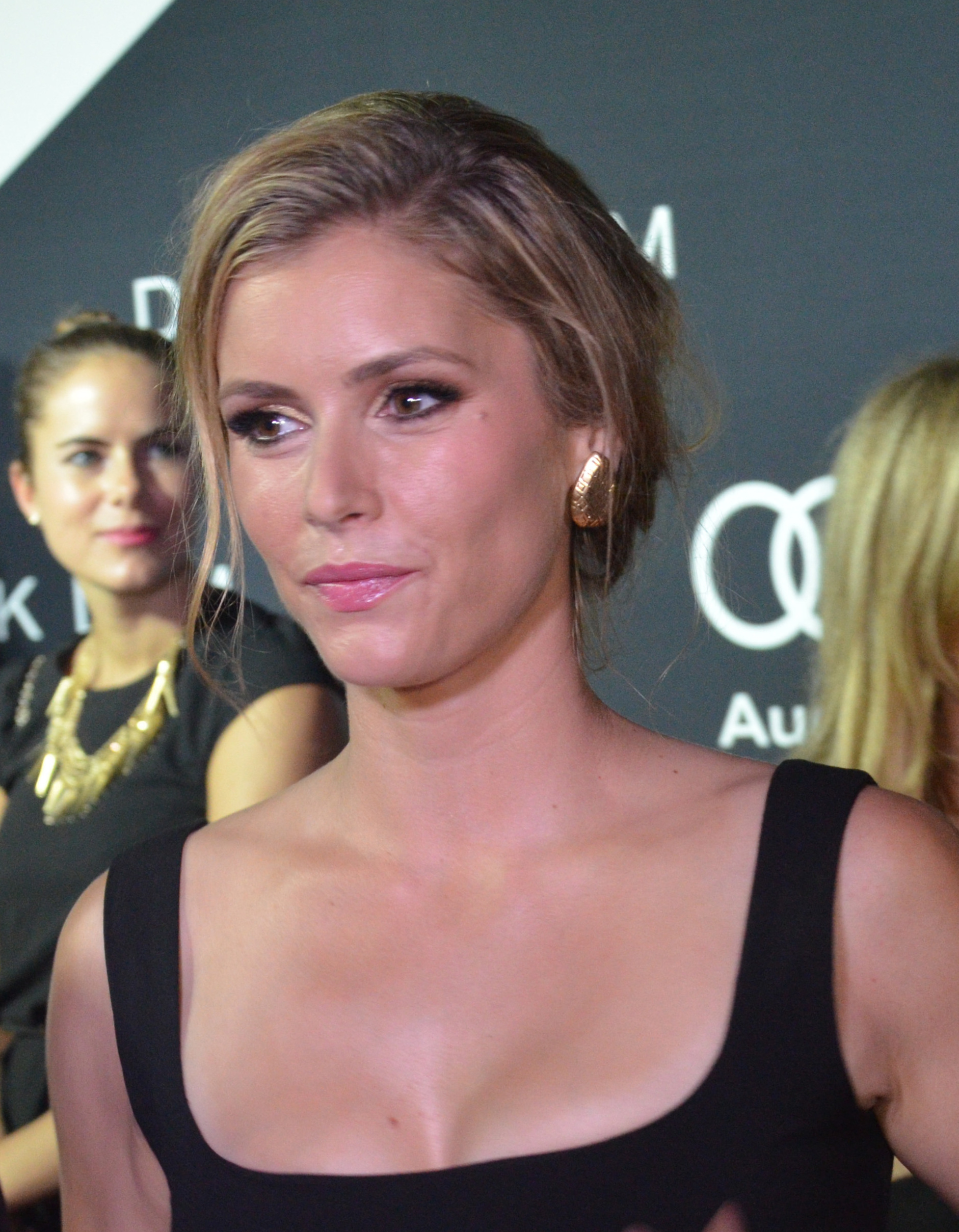 Brianna Brown - Mingle MediaTV